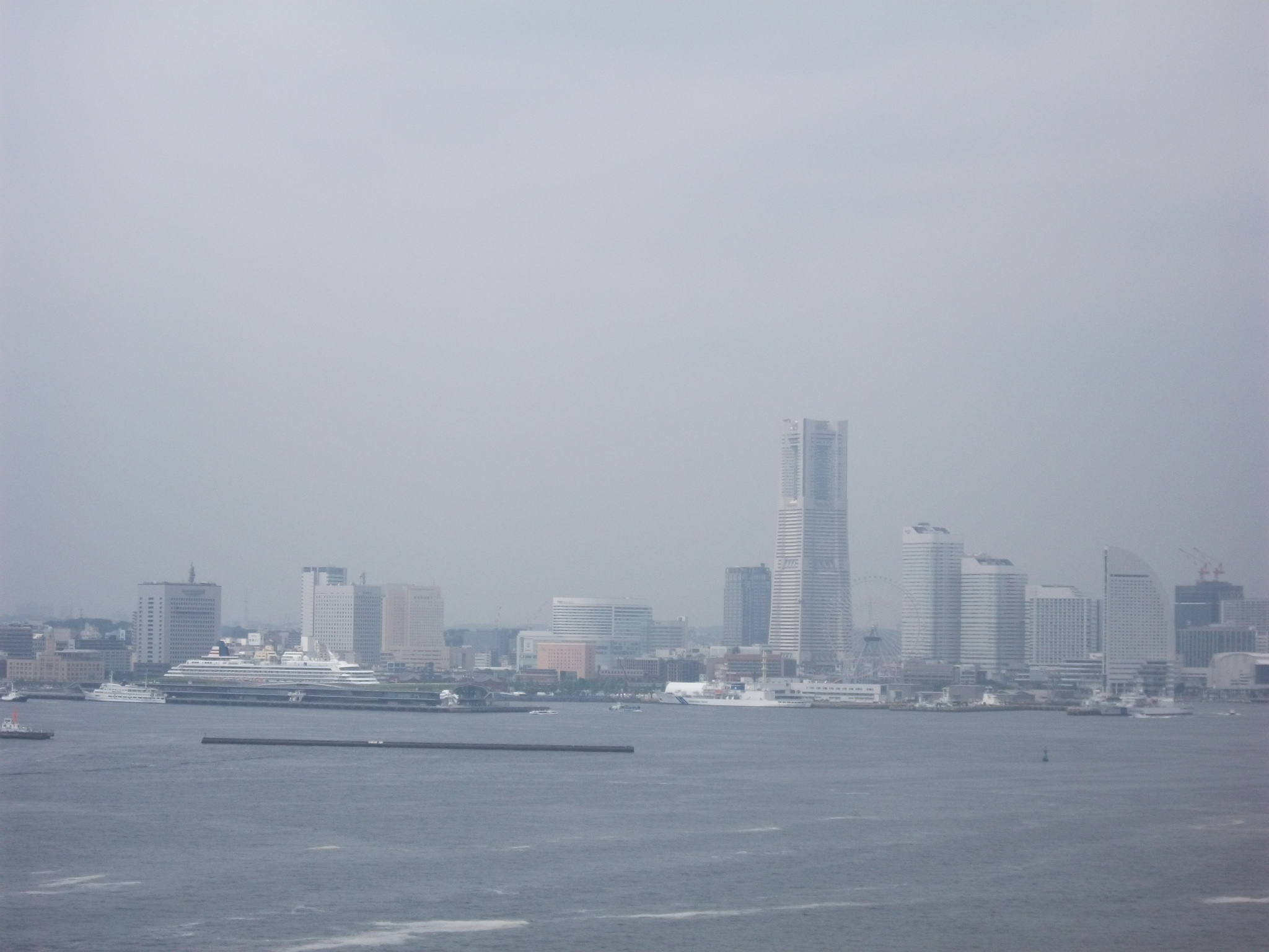 Port of Yokohama from "Yokohama Skywalk"